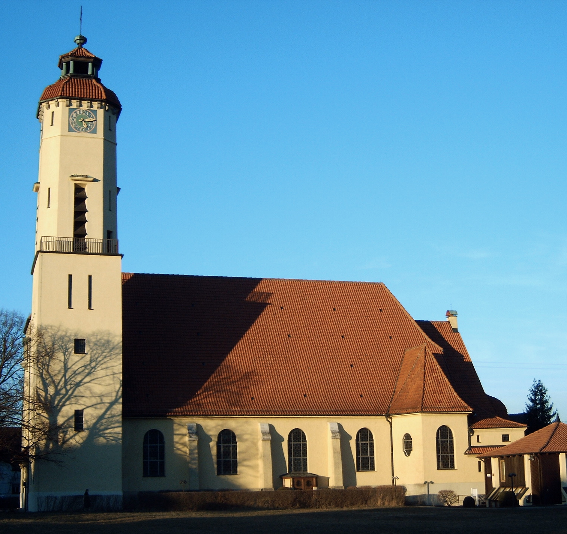 St. Cyriacus’ church, Straßdorf, Schwäbisch Gmünd, Germany